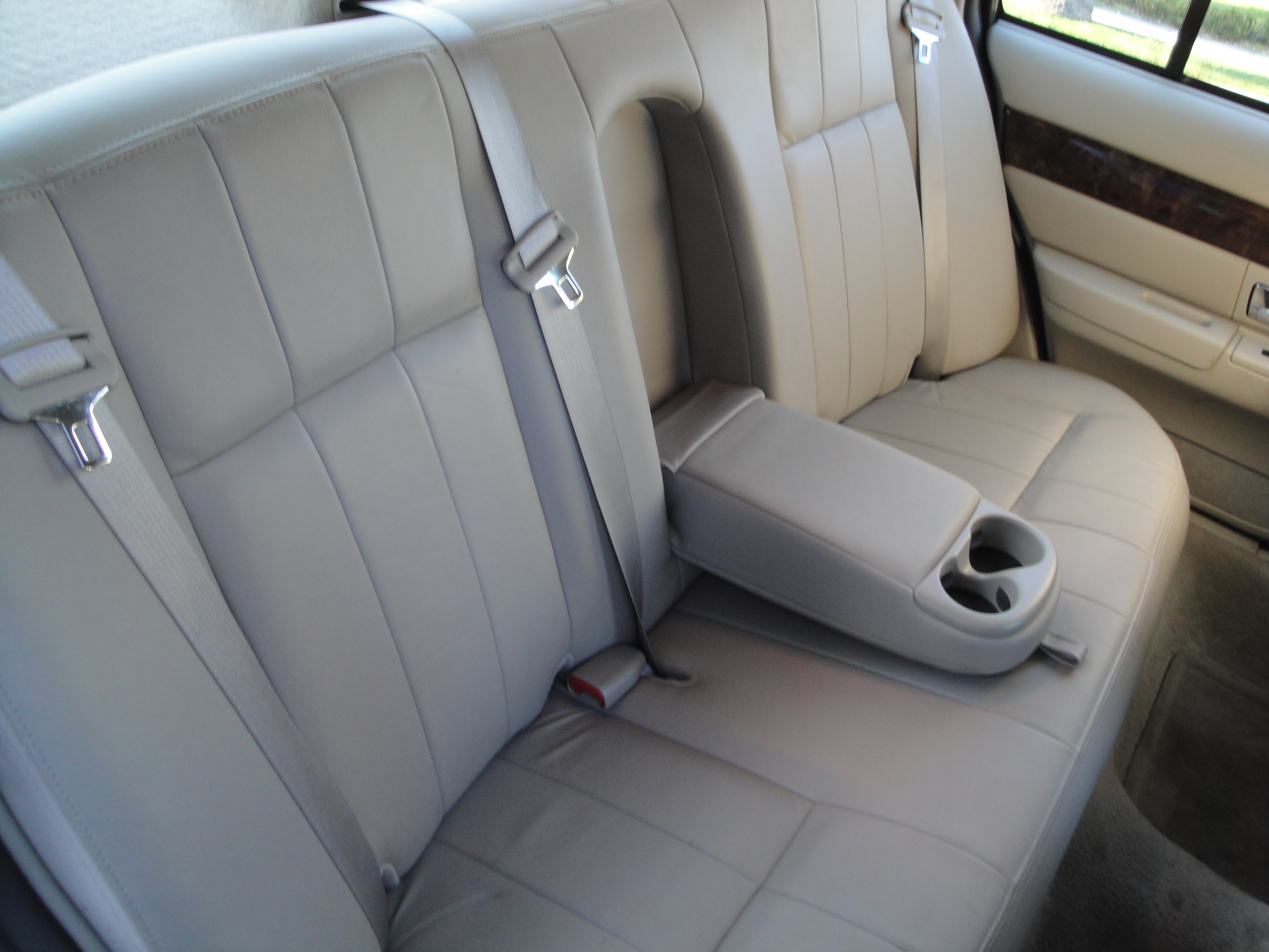 11 Mercury Grand Marquis